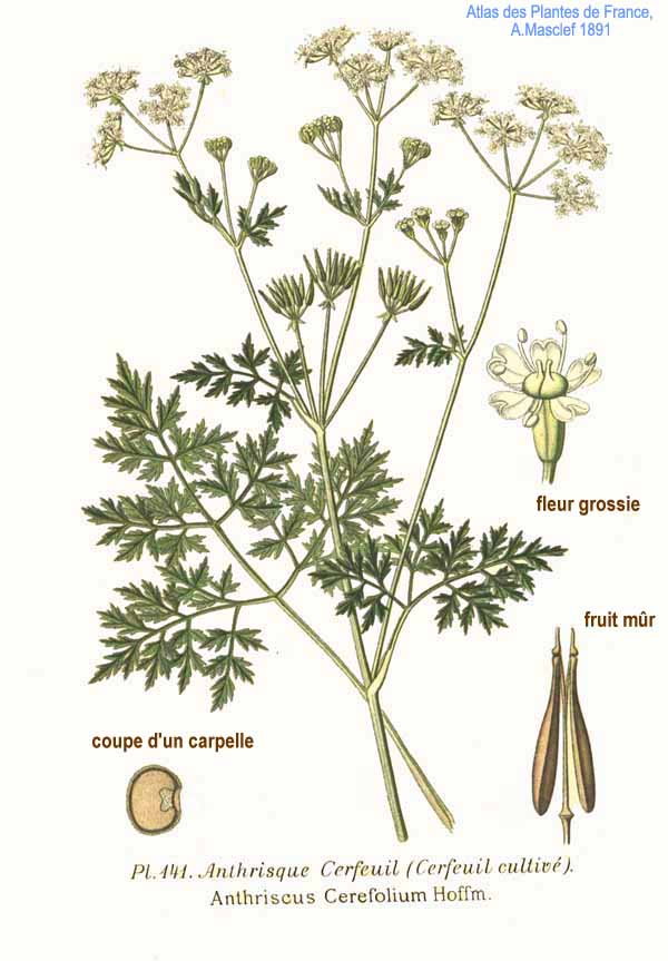 Anthriscus cerefolium Hoffm